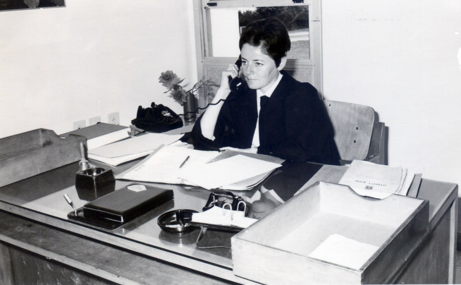 Shoshana Berman